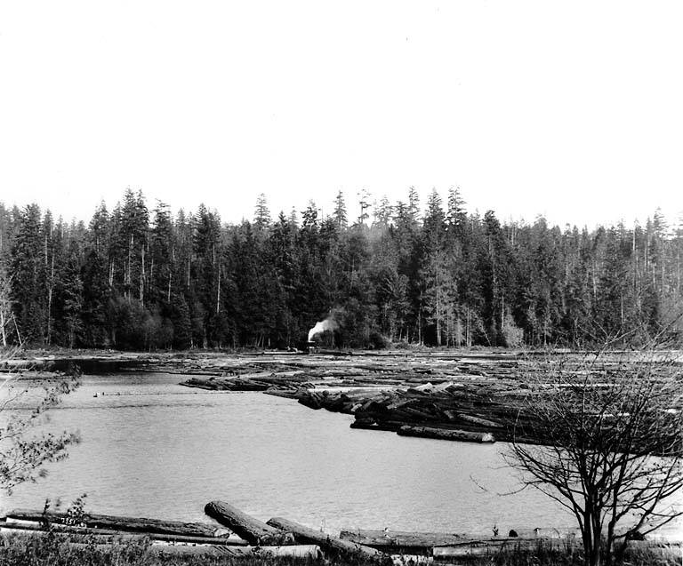 View of logs in lake with steam donkey on far shore. Subjects (LCTGM): Logs--Washington (State)--Edmonds; Steam donkeys--Washington (State)--Edmonds; Lumber industry--Washington (State)--Edmonds; Lakes & ponds--Washington (State)--Edmonds Subjects (LCSH): Great Western Lumber Company (Edmonds, Wash.); Lake Ballinger (Wash.)